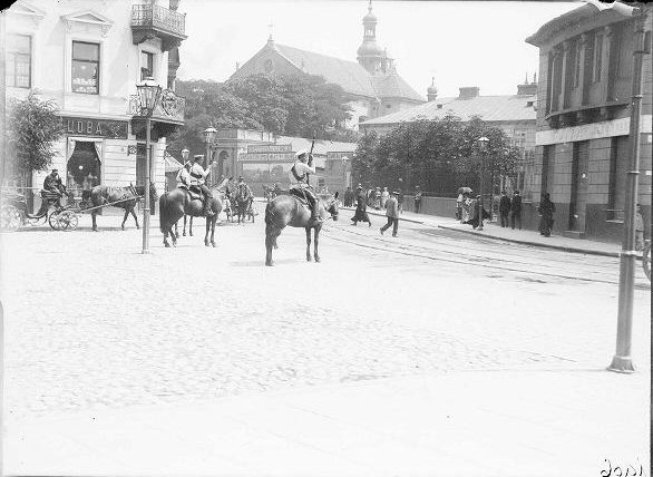 Senatorska street, Warszaw, c.1905